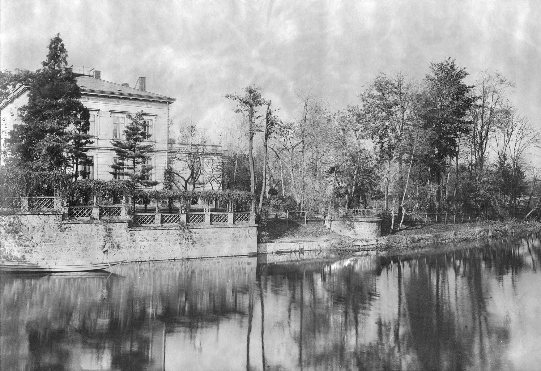 Plagwitz, Villa Klinger (Karl-Heine-Strasse 2, on the river Weisse Elster)